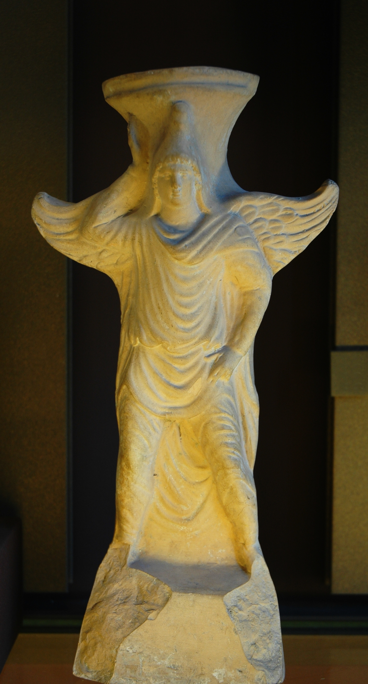 Attis. Terracotta thymiaterion (incense burner), 2nd or 1st century BCE, made in Tarsus.